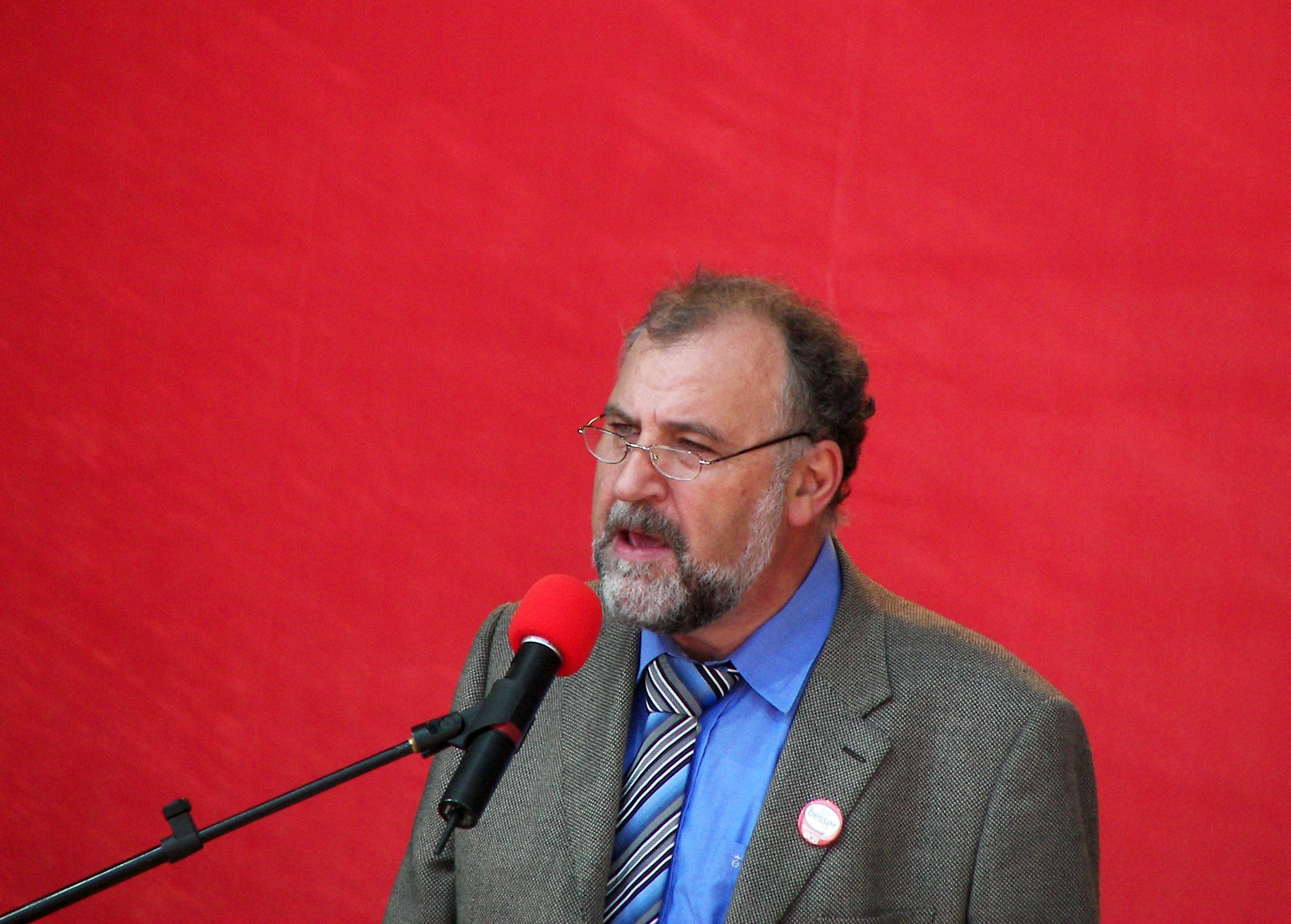 Klaus Wiesehügel, Chairman of the german construction workes trade union (IG BAU) delivers a speech in Frankfurt am Main on October 21, 2006